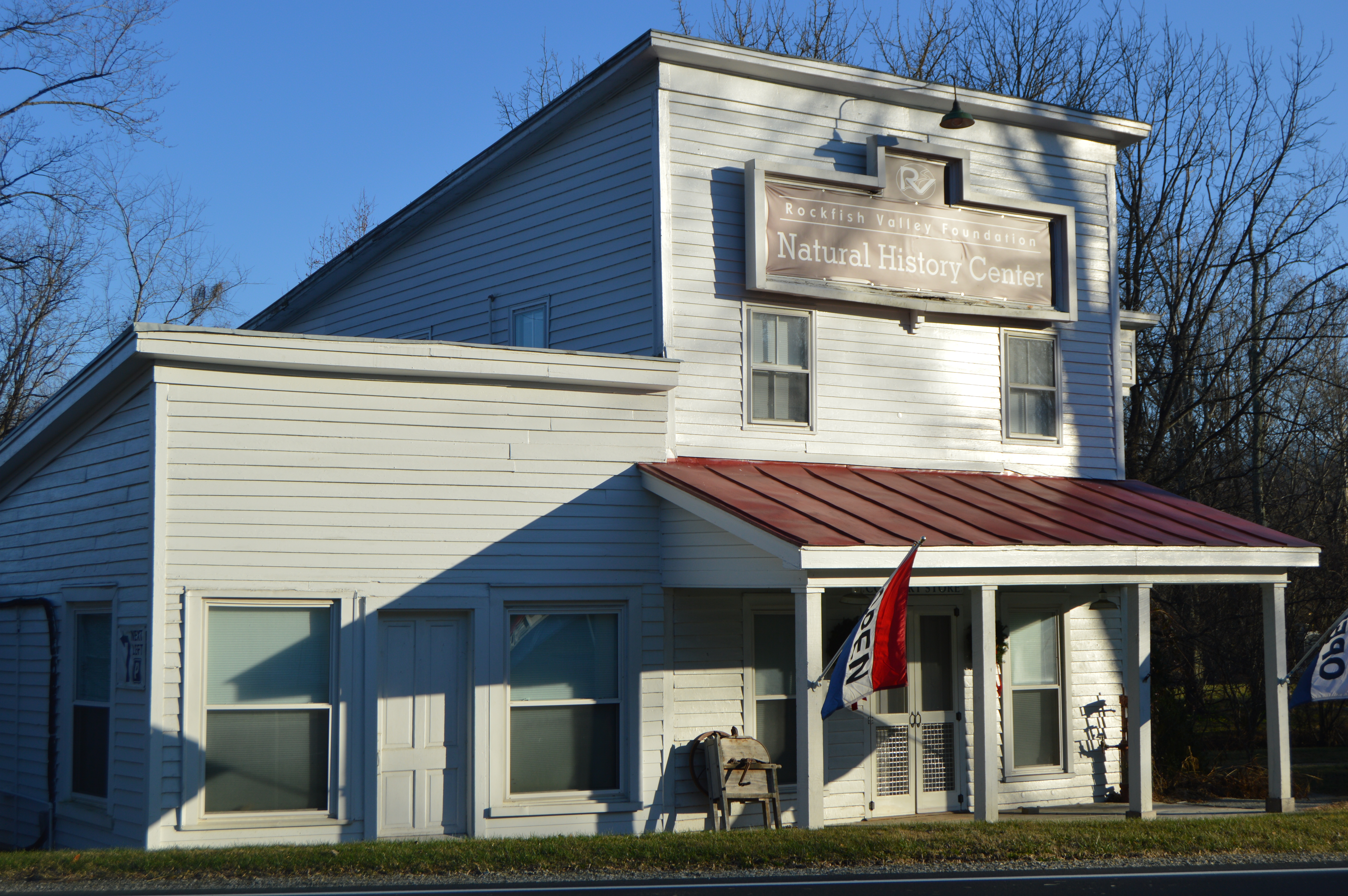 Front of the Wintergreen Country Store (now a museum), located at 1368 State Route 151 at Wintergreen in Nelson County, Virginia, United States. Built in 1908, it is listed on the National Register of Historic Places, and it is part of a Register-listed historic district, the South Rockfish Valley Rural Historic District.